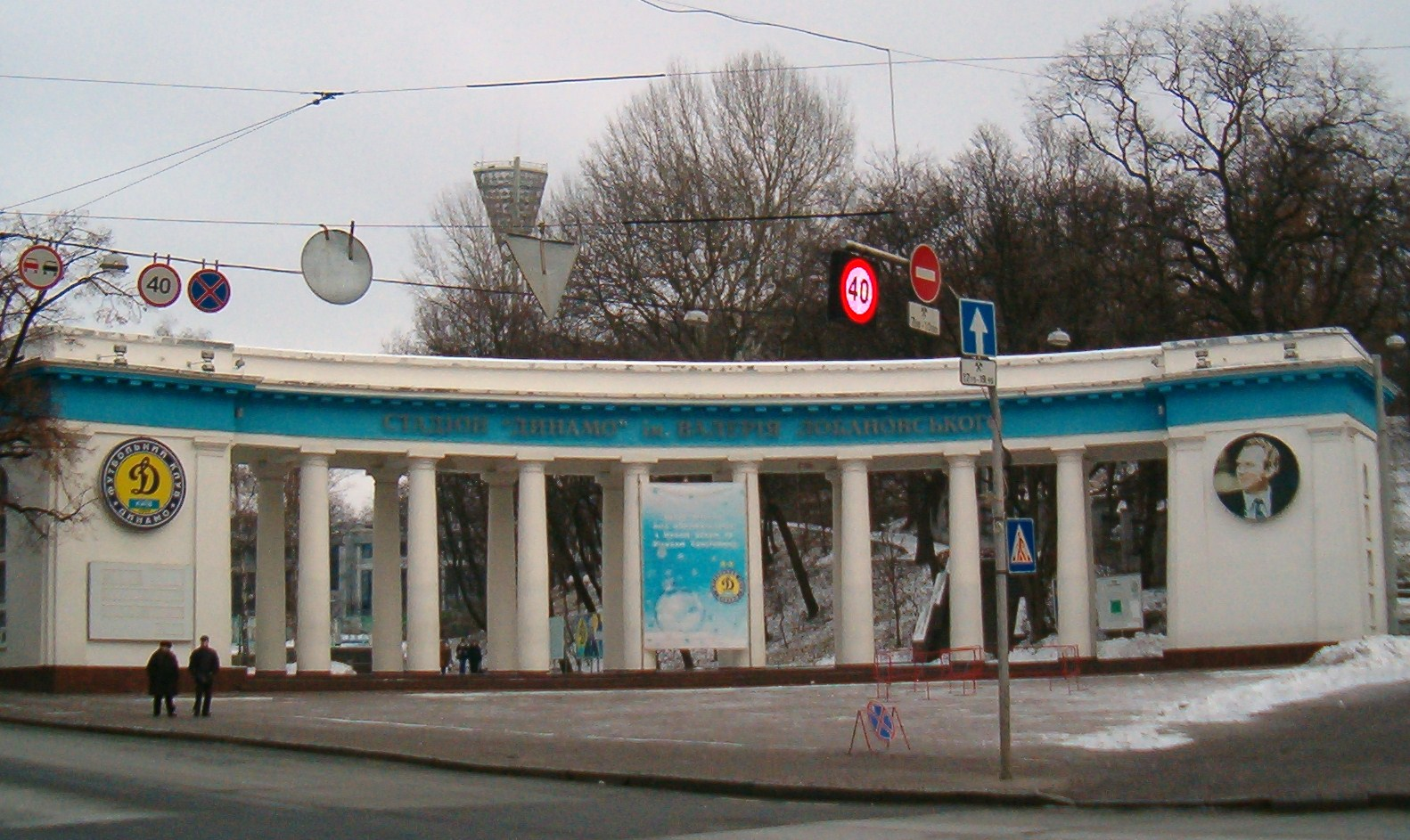 Stadion Dinamo Kiev Lobanovskyi